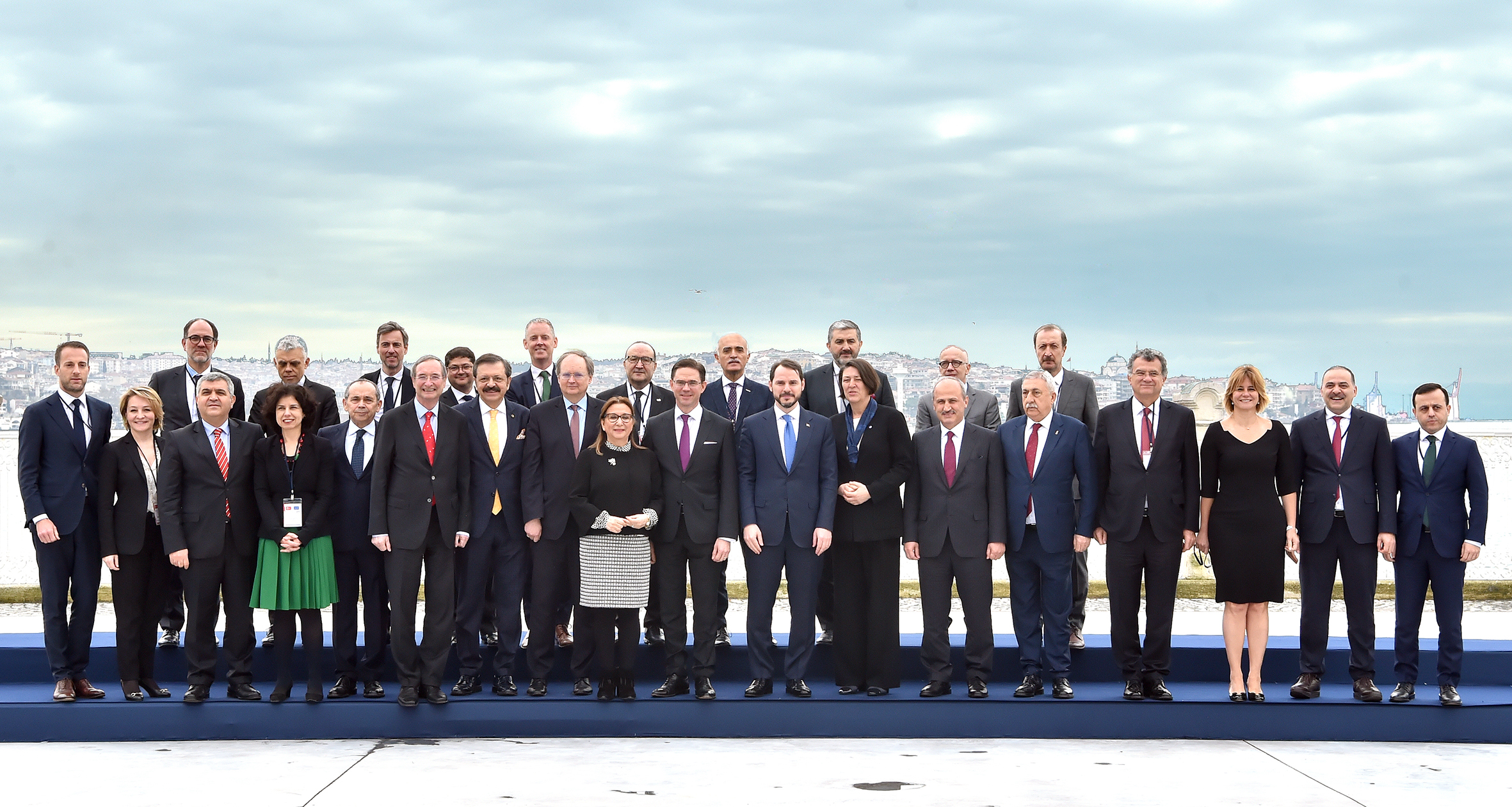 The High-Level Economic Dialogue (HLED) between Turkey and European Union convened on February 28, 2019 in Istanbul for its third meeting. The meeting was co-chaired by the Treasury and Finance Minister, Dr. Berat Albayrak and Vice-President of the European Commission responsible for Jobs, Growth and Investment, Jyrki Katainen. The meeting was completed with the participation of Turkish and European business partners. Christoph Leitl, President of EUROCHAMBRES, and Rifat Hisarcıklıoğlu, Vice-President of EUROCHAMBRES and President of TOBB gave the views of the Chamber community to the public sector.